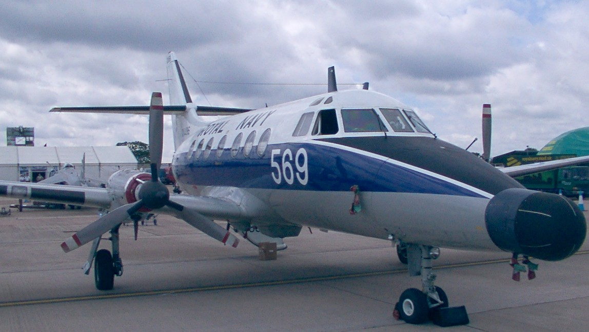 A Scottish Aviation Jetstream T2 with military serial number XX486 of the Royal Navy on display at the Royal International Air Tattoo 2004